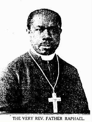 Very Rev. Fr. Raphael Morgan (Robert Josias Morgan)